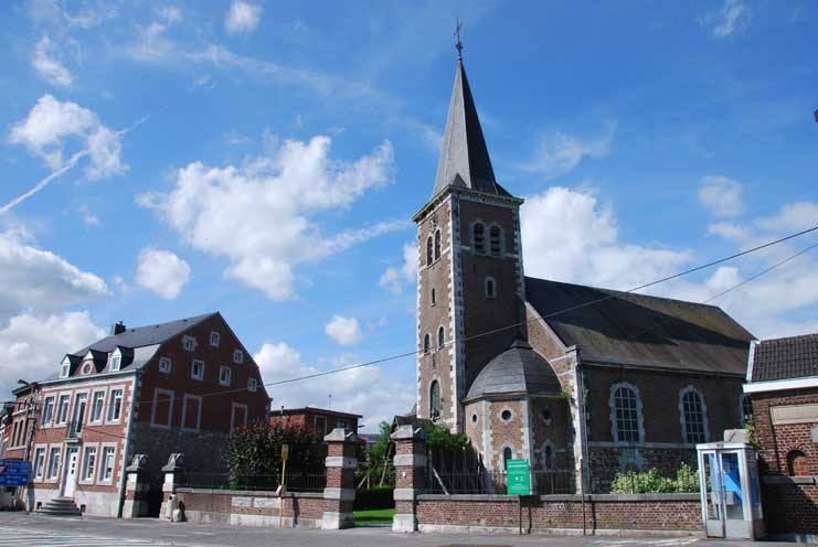 Church of Saint Lambert in Soumagne, village in Belgium. Building style: "Maaslandse Renaissance"